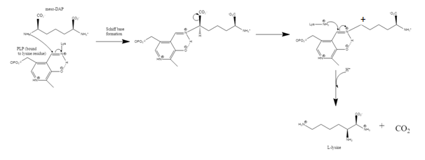 A schematic of the reaction mechanism of DAPDC. DAP forms a Schiff base with PLP, reconforms so that carbon dioxide becomes a good leaving group, and then returns PLP to a lysine residue.